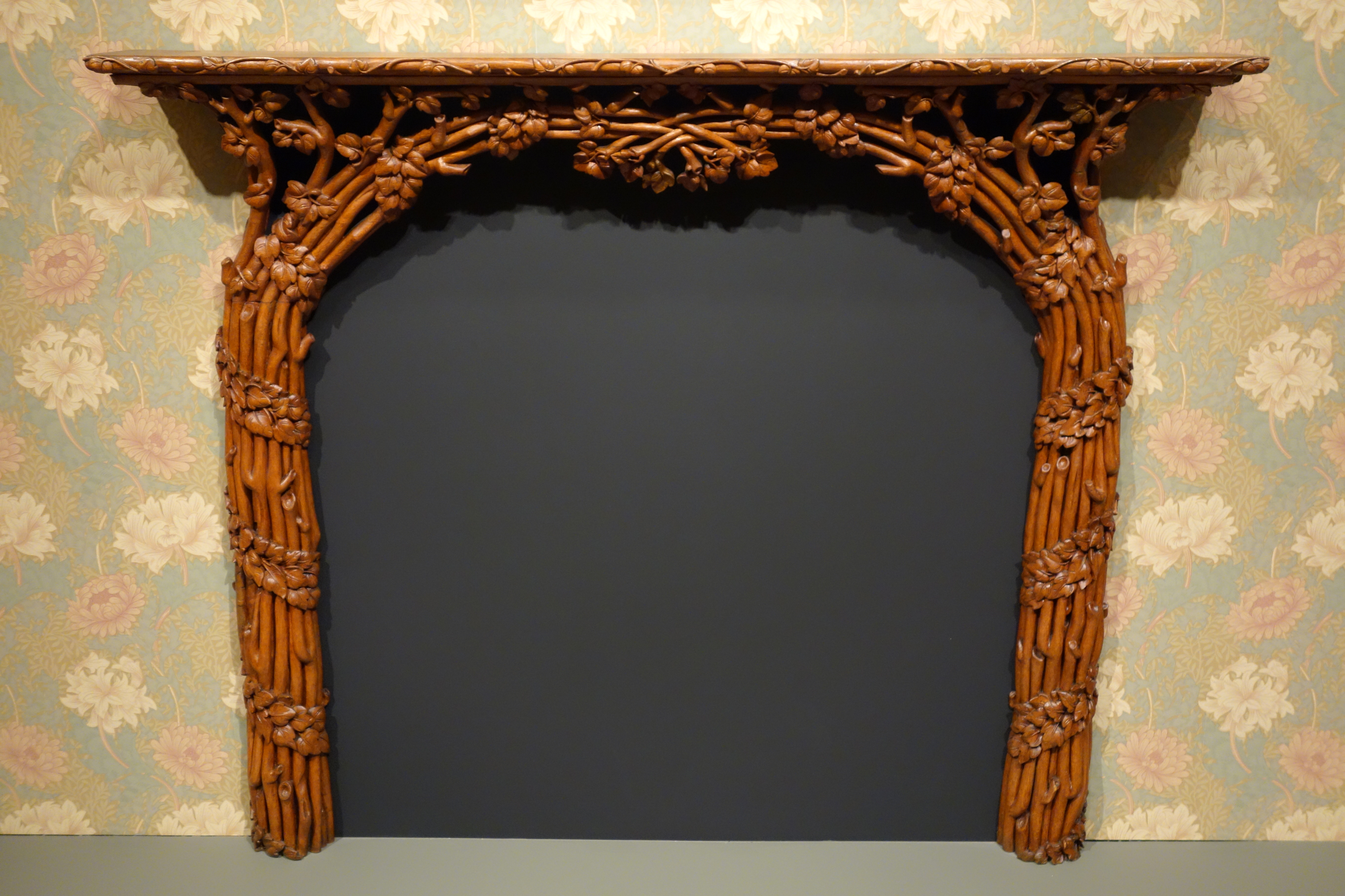 Exhibit in the Cincinnati Art Museum, Cincinnati, Ohio, USA. This artwork is in the public domain because the artist died more than 70 years ago.